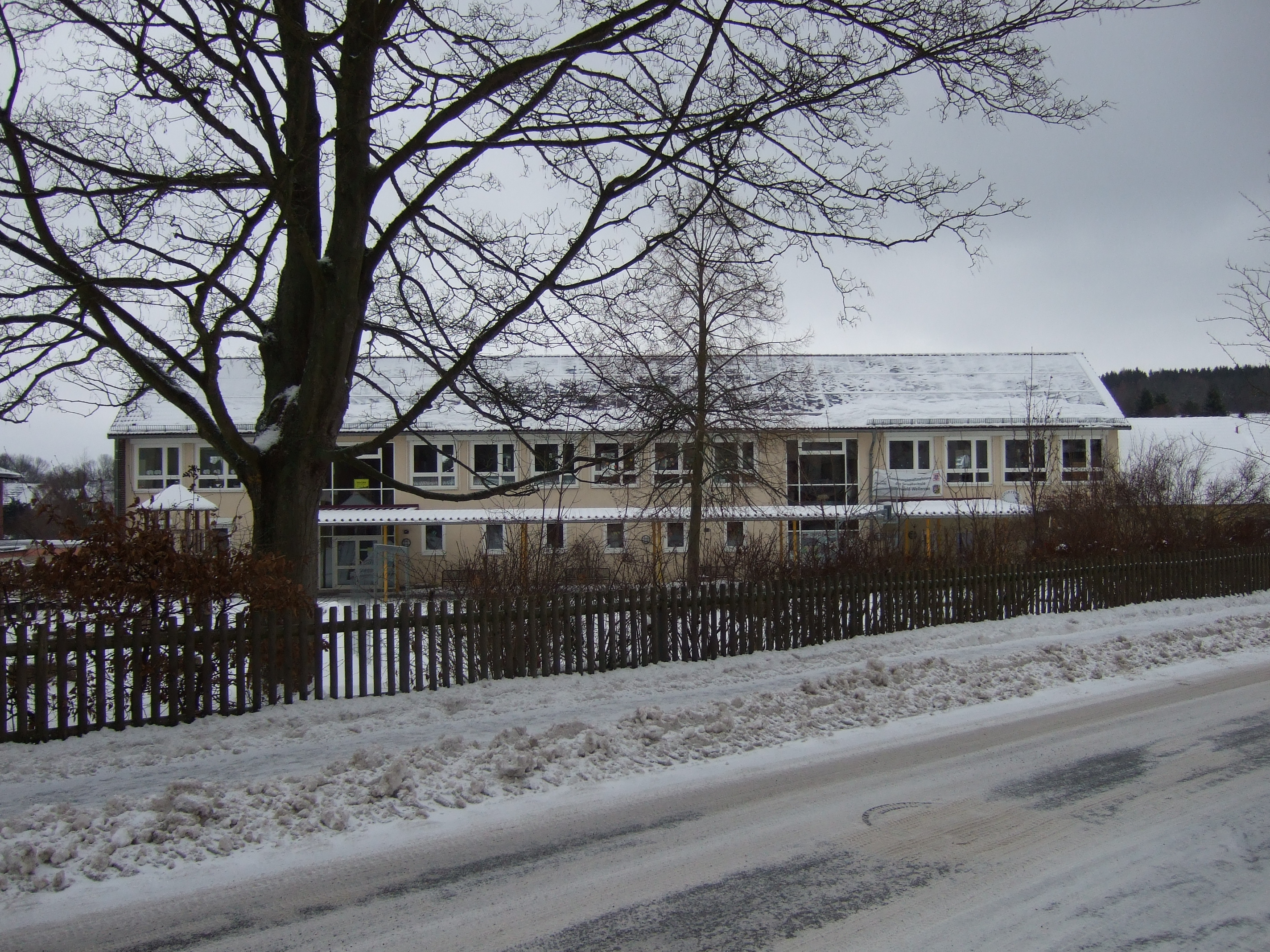 new school of söhrewald